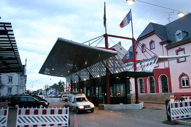 Border checkpoint in Lysbüchel between Saint-Louis and Basel